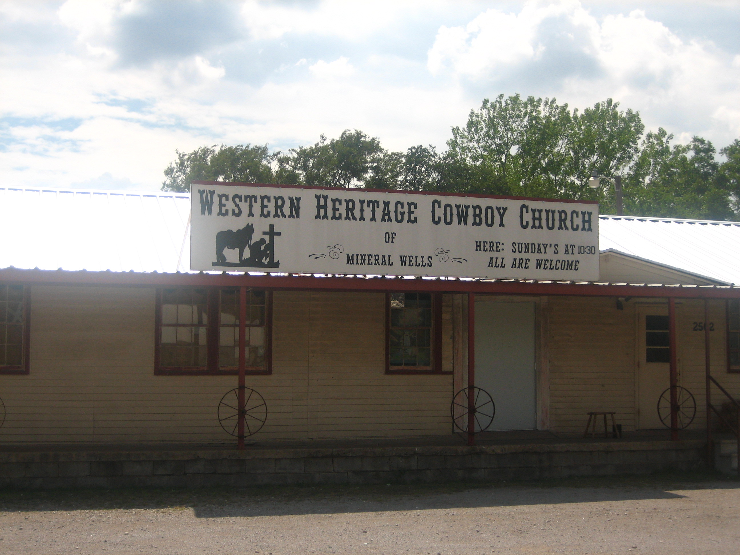 I took photo in July 2008.